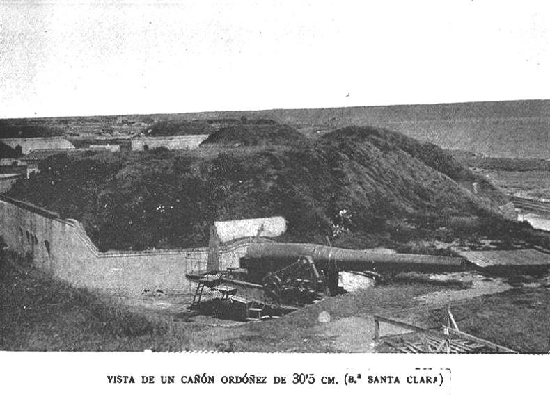 Batery of Santa Clara.2 Havana, Cuba